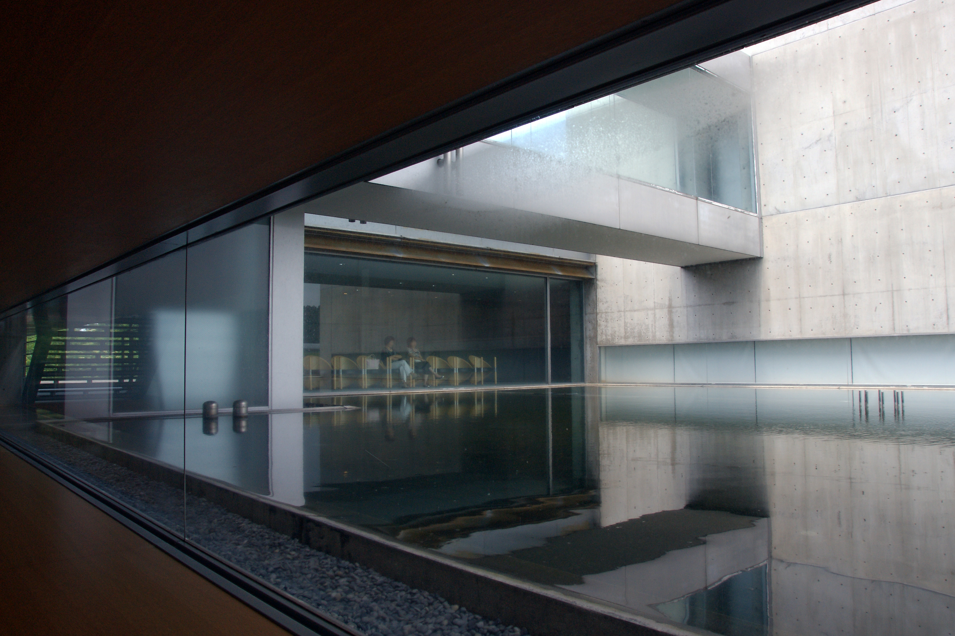 Shoji Ueda Museum of Photography in Hōki, Tottori prefecture, Japan